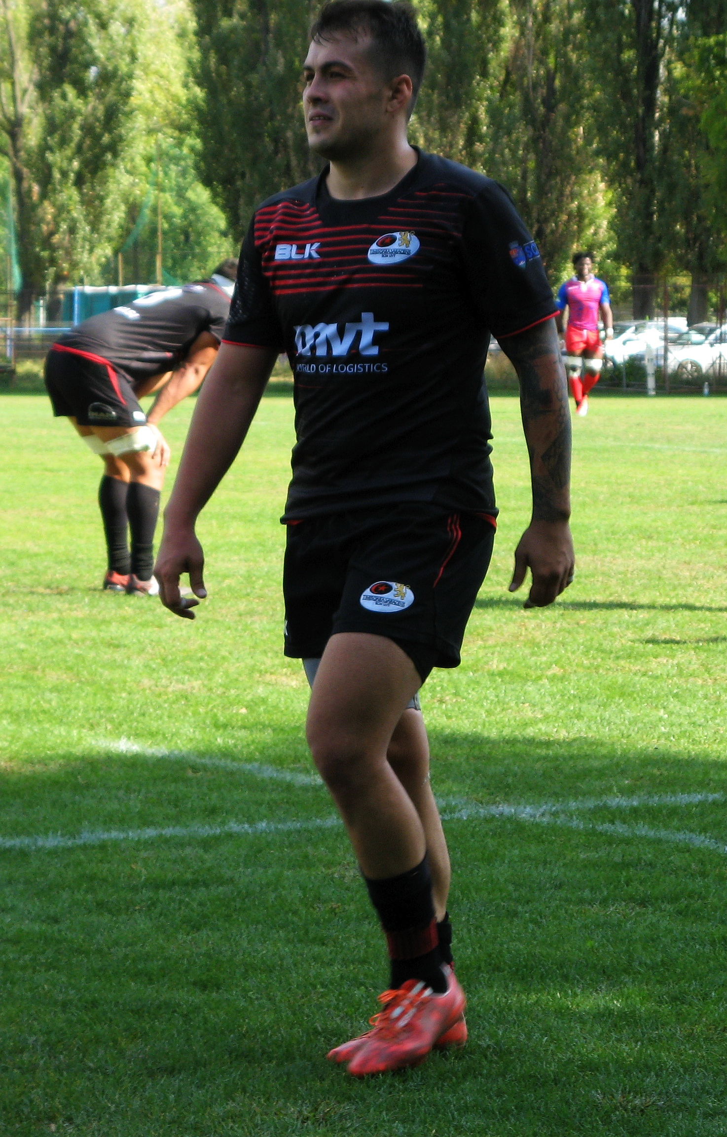 Romanian rugby union football player Gabriel Conache, player of Timișoara Saracens rugby club seen during a match against CSA Steaua București in Round 3 of Romanian Rugby SuperLiga in September 2018